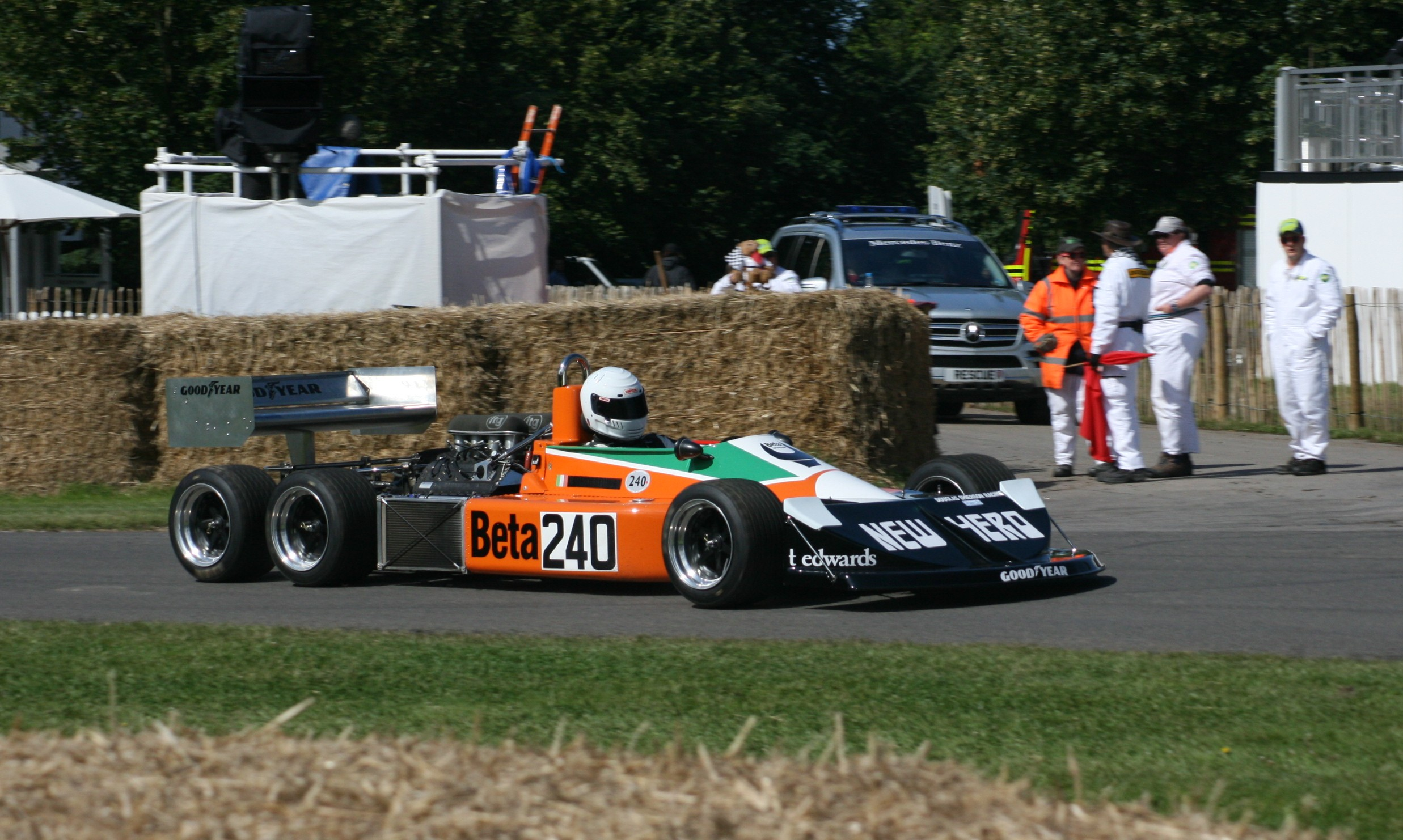 Six wheeled F1 car.